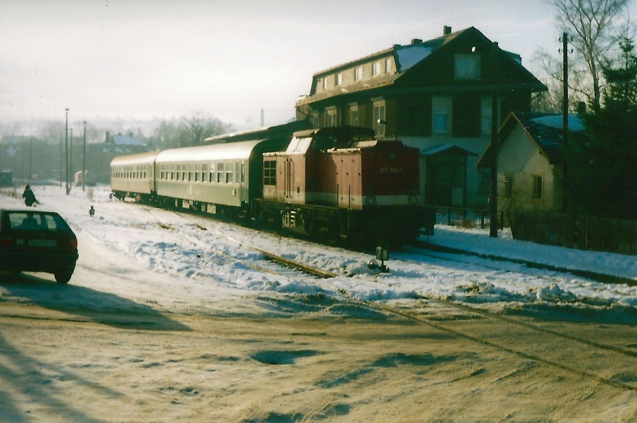 Bahnhof Crottendorf (Crottendorf railway station)